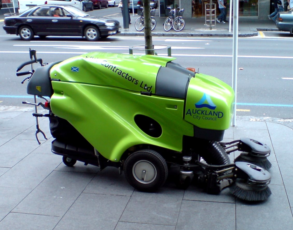 Probably called the 'ISweep' or something ;-) Seen in the Auckland CBD in Auckland City, New Zealand. Actually, it seems to be a product called a 'Green Machine' by the Tennant Company. I still feel that 'ISweep' would have been dorkier but cooler (at the same time).